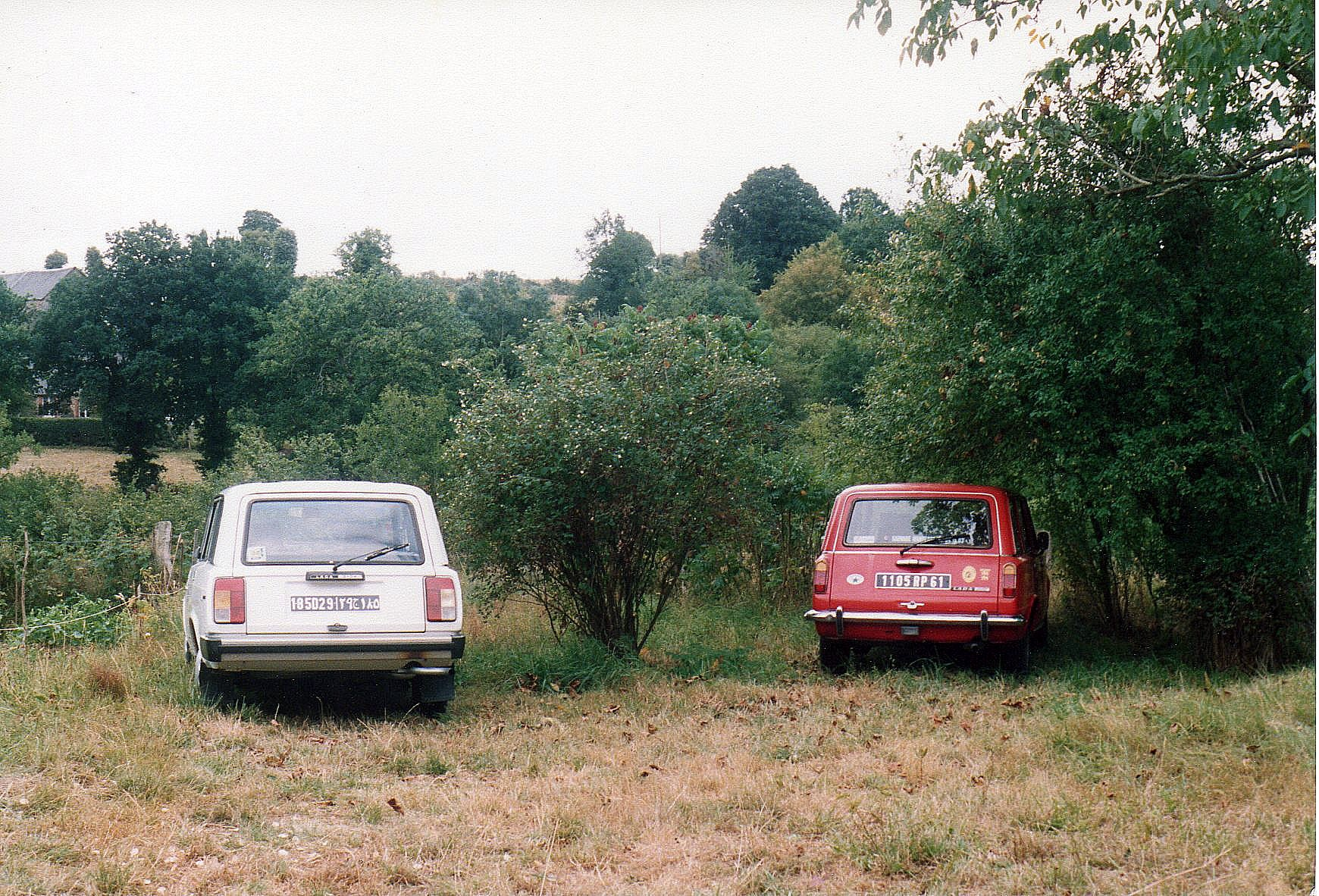 Lada 2104 and Lada 1500 Combi in Normandy, France.